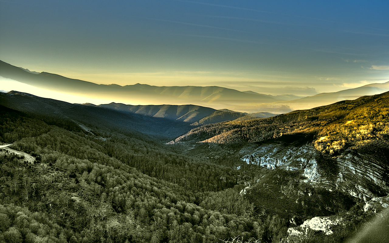 Cabuerniga Valley in the northern Spanish region of Cantabria (Spain).